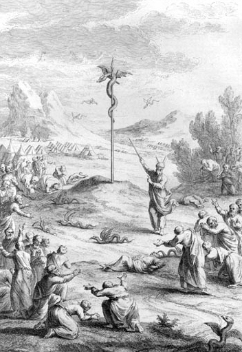 Serpent of Brass Raised by Moses in the Desert, described in Numbers 21:6, French engraving